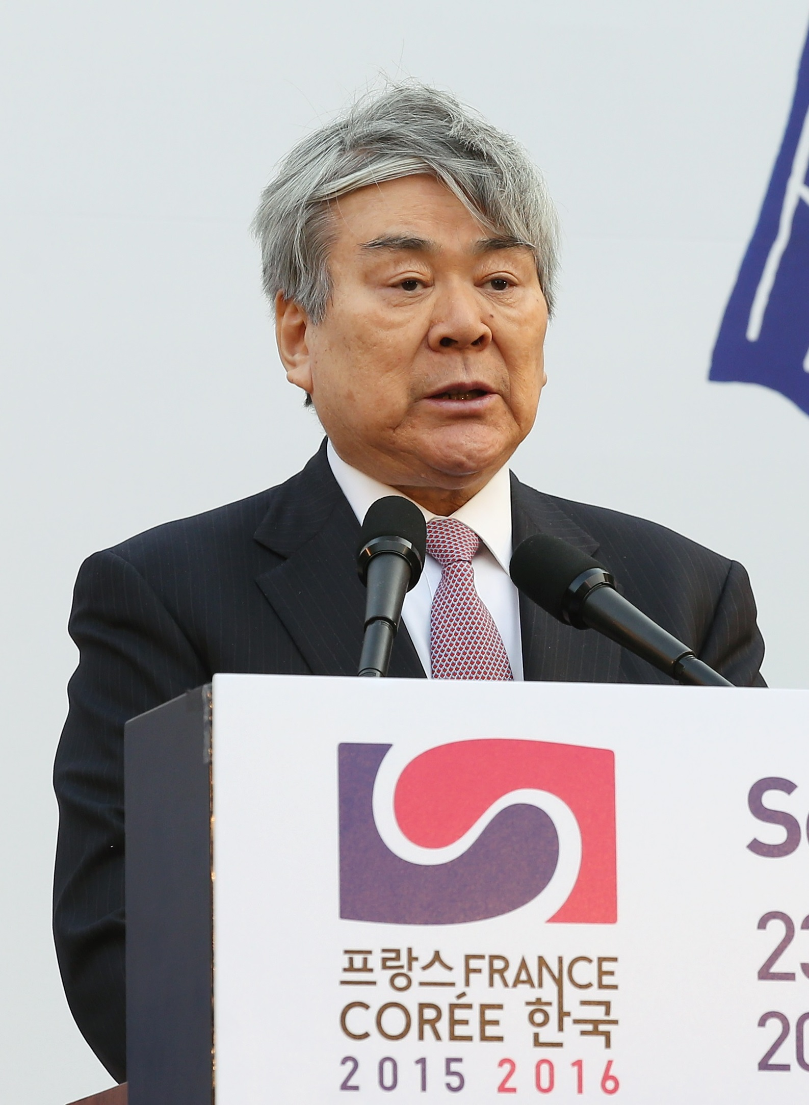 Cho Yang-ho in the 2015-2016 of Korea-France Bilateral Exchanges.